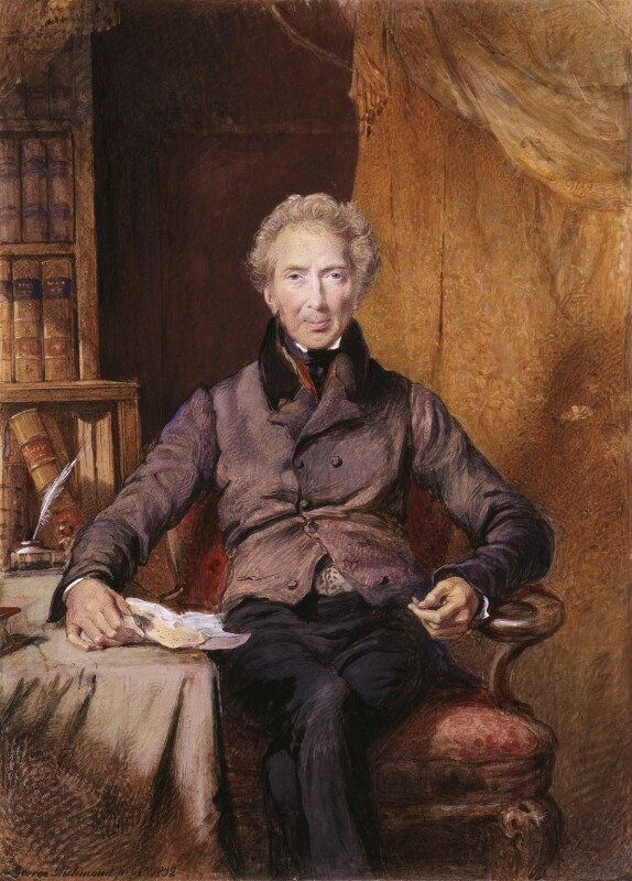 John Shore, 1st Baron Teignmouth by George Richmond. watercolour, 1832. 14 1/4 in. x 10 3/8 in. (362 mm x 264 mm). Purchased, 1977. Primary Collection. National Portrait Gallery, London 5145.